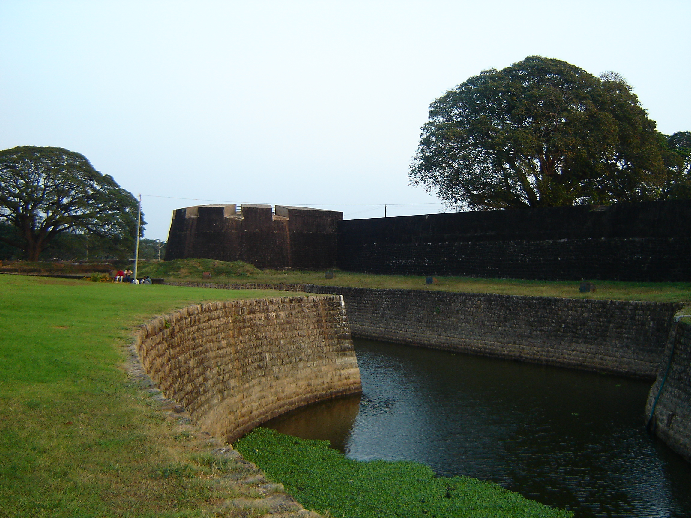 View of Tippu's Fort, Palakkad from outside the northern wall